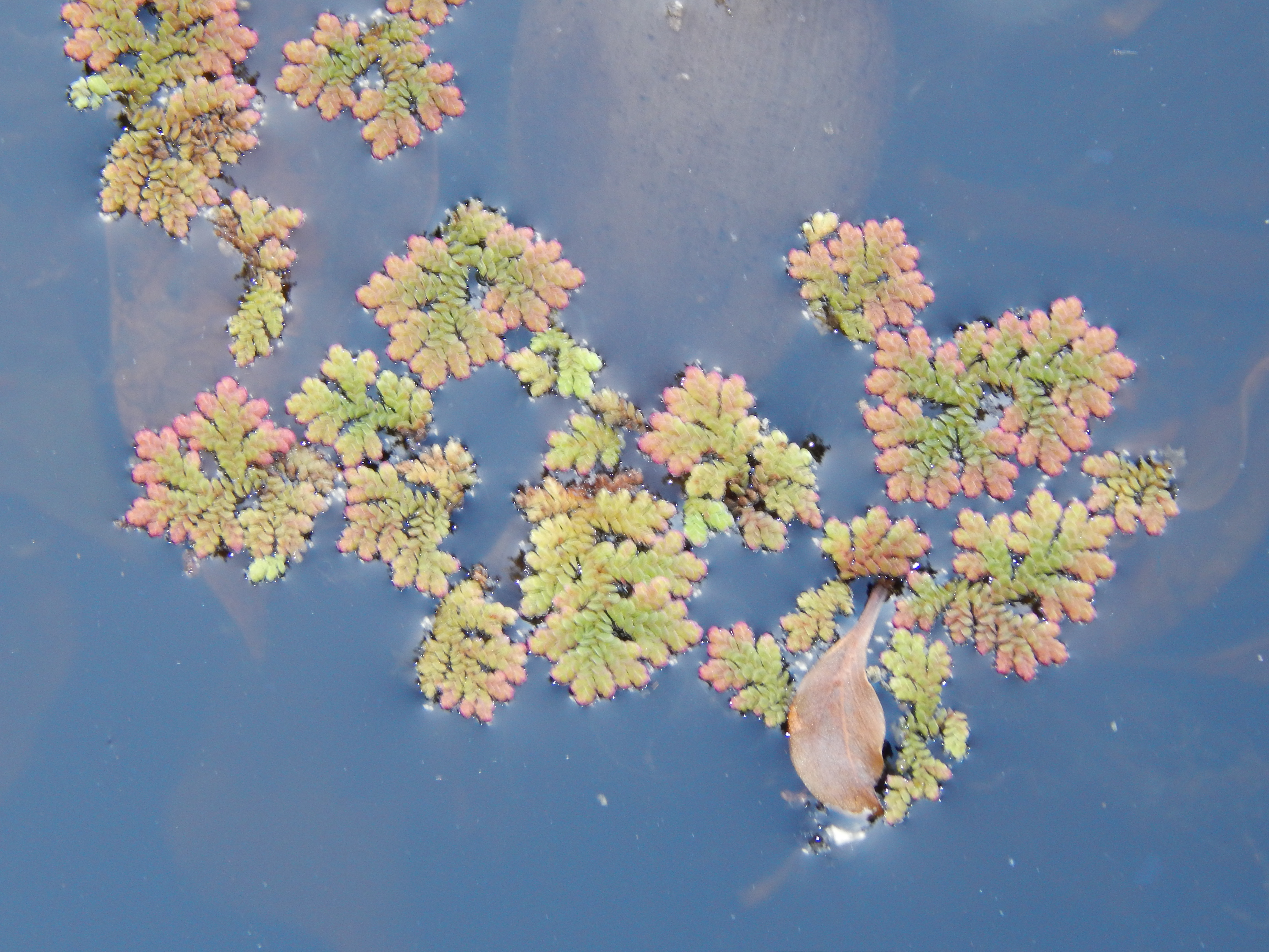 Azolla pinnata (Ferny azolla, mosquito fern) Habit in water pond at Hoku Nui Piiholo, Maui, Hawaii. December 29, 2014 #141229-3317 Image Use Policy Also placed in Azollaceae.